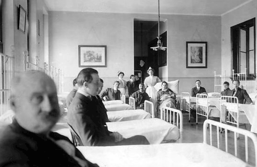 Photo of some Titanic survivors recovering at St. Vincent's Hospital in New York City. The two men with the nurse in the background are Titanic crew members. The man with the pillow behind him is Thomas Whitely, who was a waiter on the ship. He suffered a broken leg and burns. To his right is John Thompson, who was a fireman on the Titanic; Thompson suffered a broken arm.